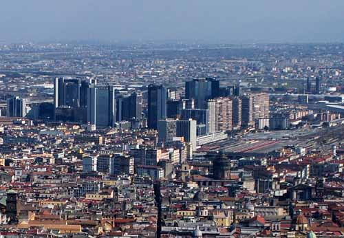 Private photo taken and uploaded by user Jeffmatt| 09:54, 17 September 2006 (UTC) No rights claimed Private photo taken and uploaded by user Jeffmatt 09:54, 17 September 2006 (UTC) No rights claimed